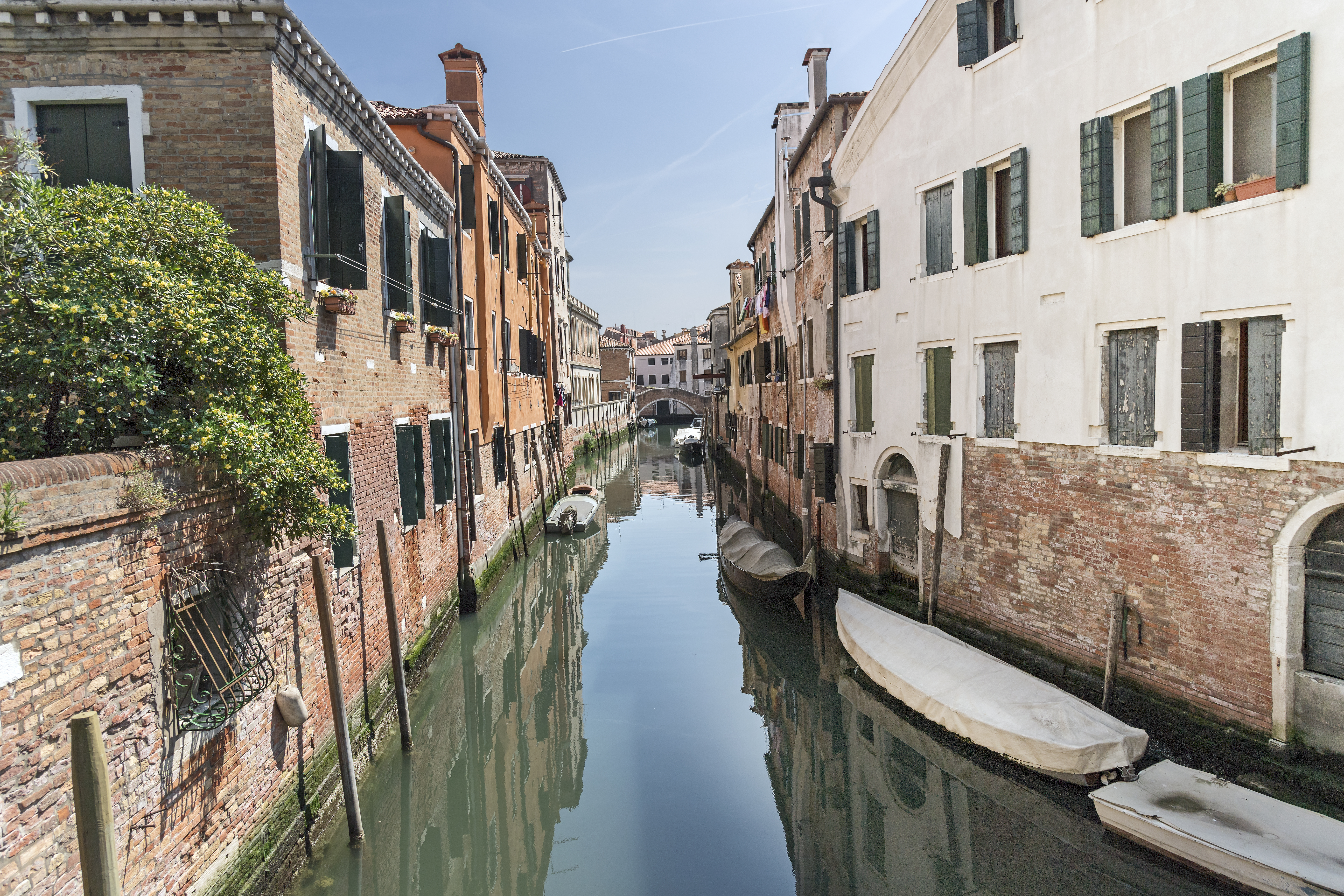 Rio dell'Avogaria viewed from ponte de l'Avogaria to ponte Sartorio.